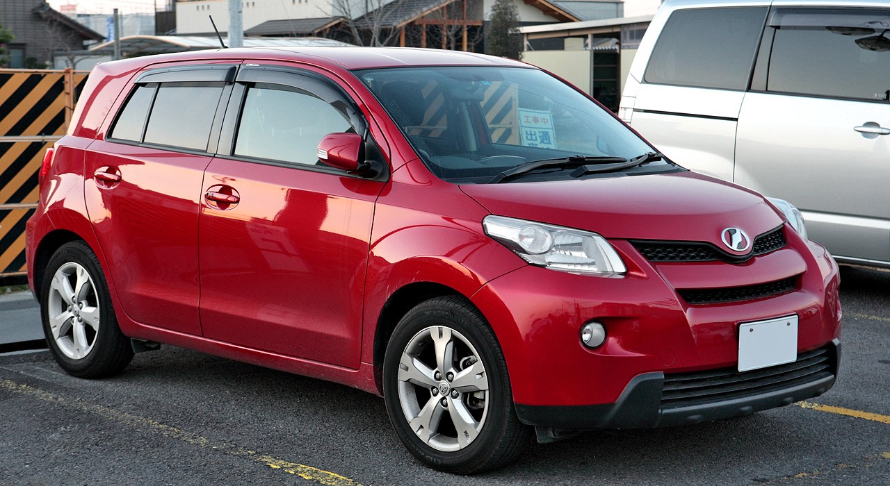 Toyota ist